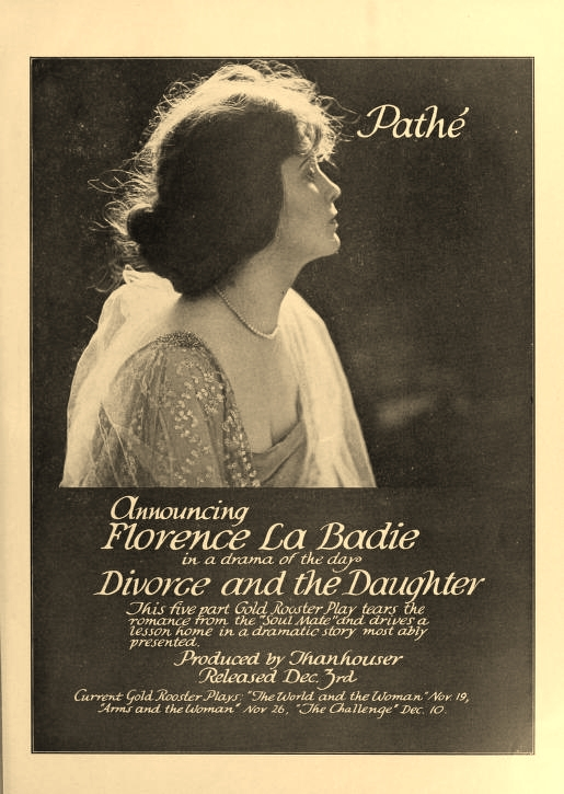 Advertisement for 1916 silent film Divorce and the Daughter